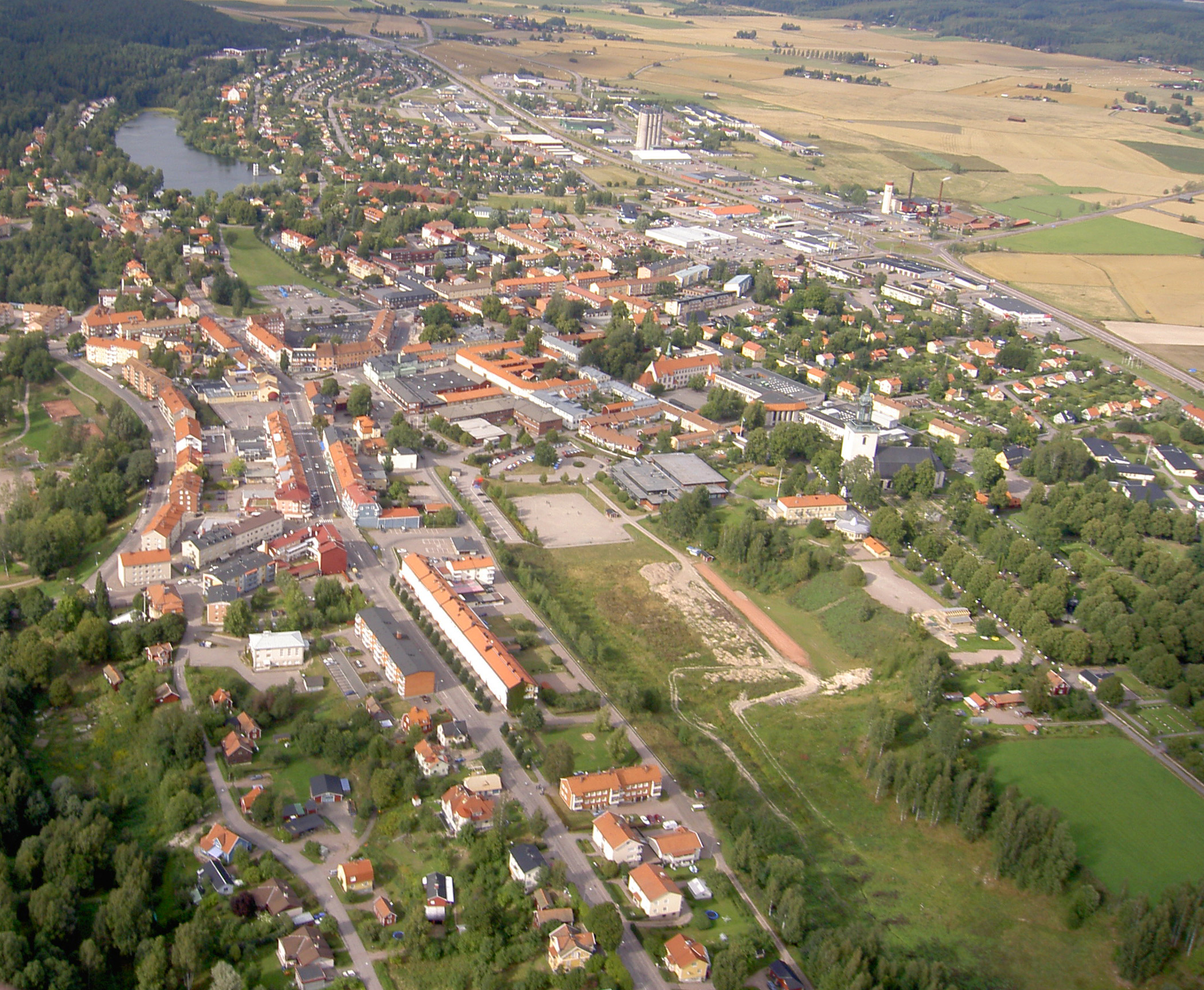 Northeastern part of the city Hedemora in Dalarna, Sweden. Picure taken from a glider.